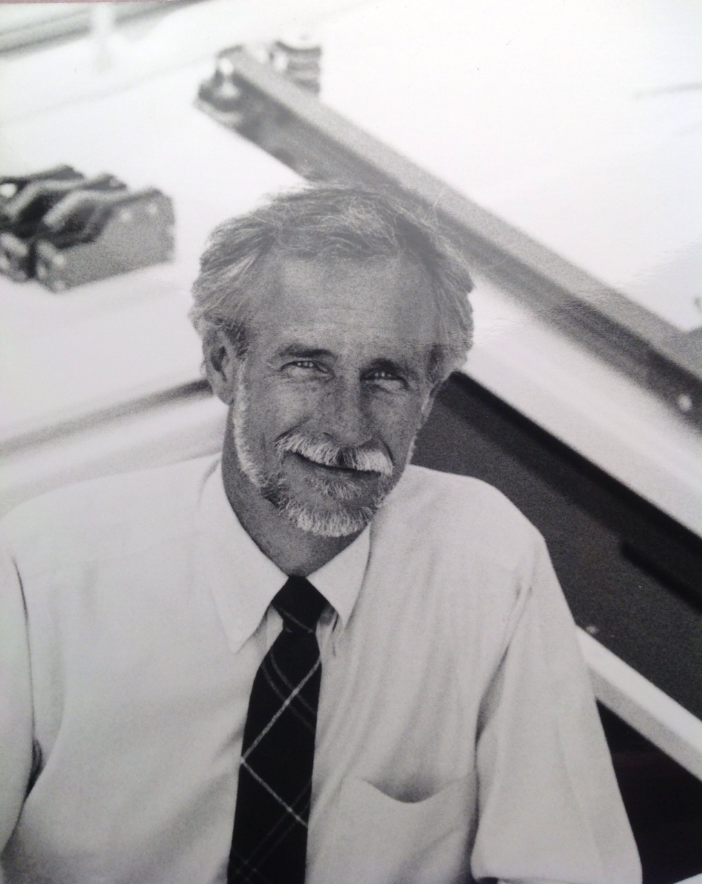 Gerry Douglas, partner, vice president, chief engineer and yacht designer for Catalina Yachts.